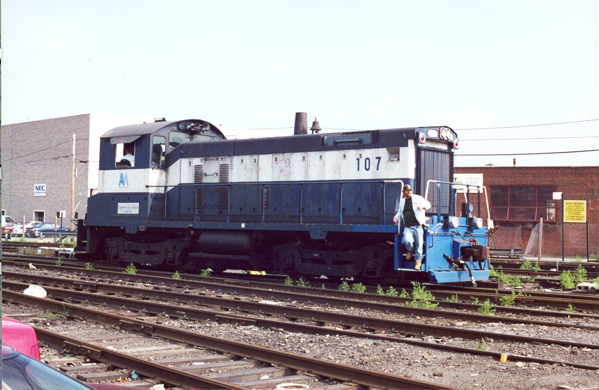 Long Island Railroad #107 EMD SW1001